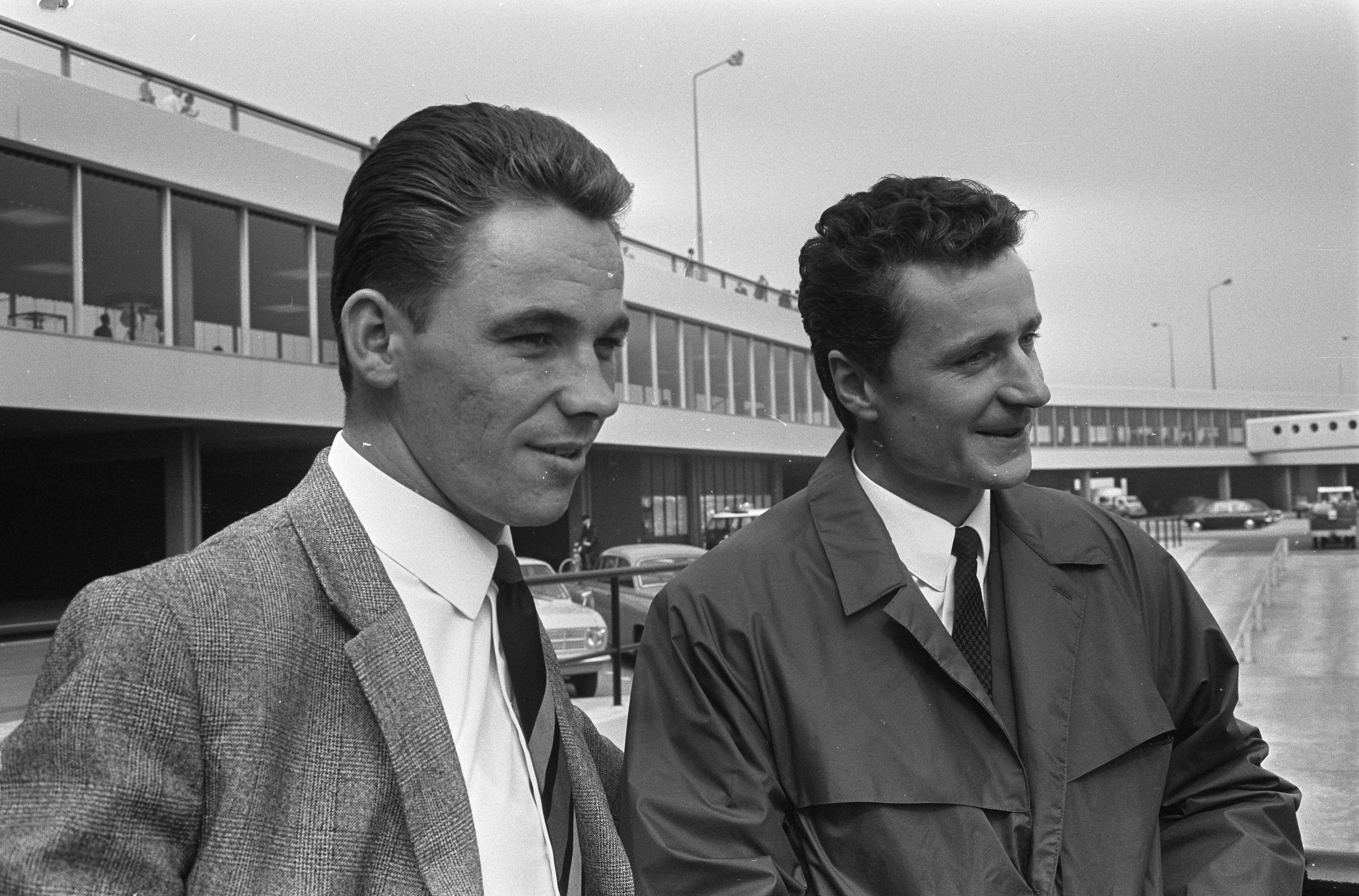 Henning Frenzel and Dieter Erler in 1967.